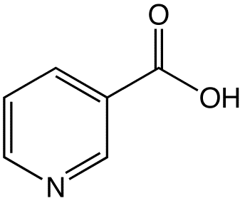 structure of niacin